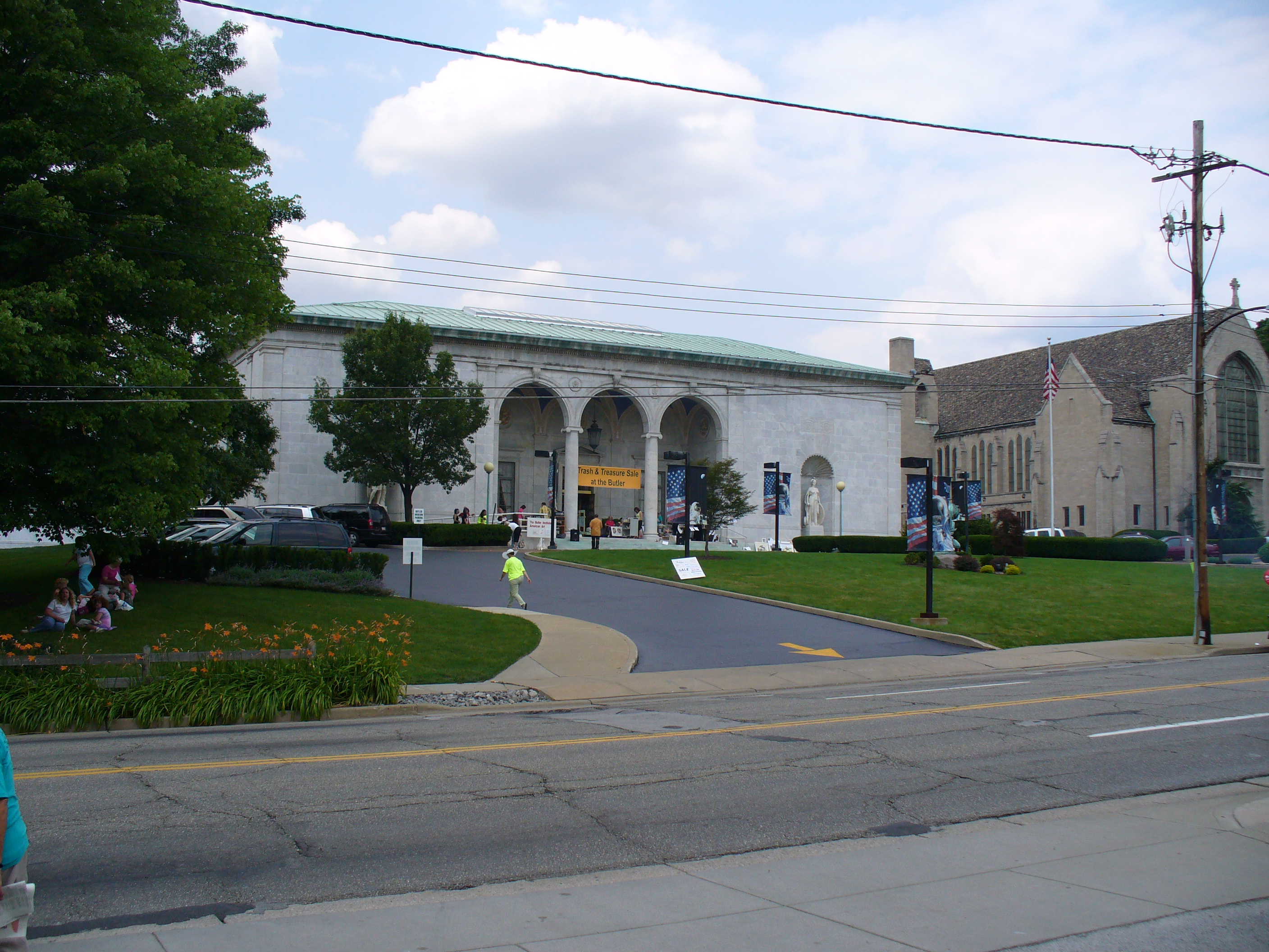 The Butler Institute of American Art, during their annual "Trash and Treasure Sale".